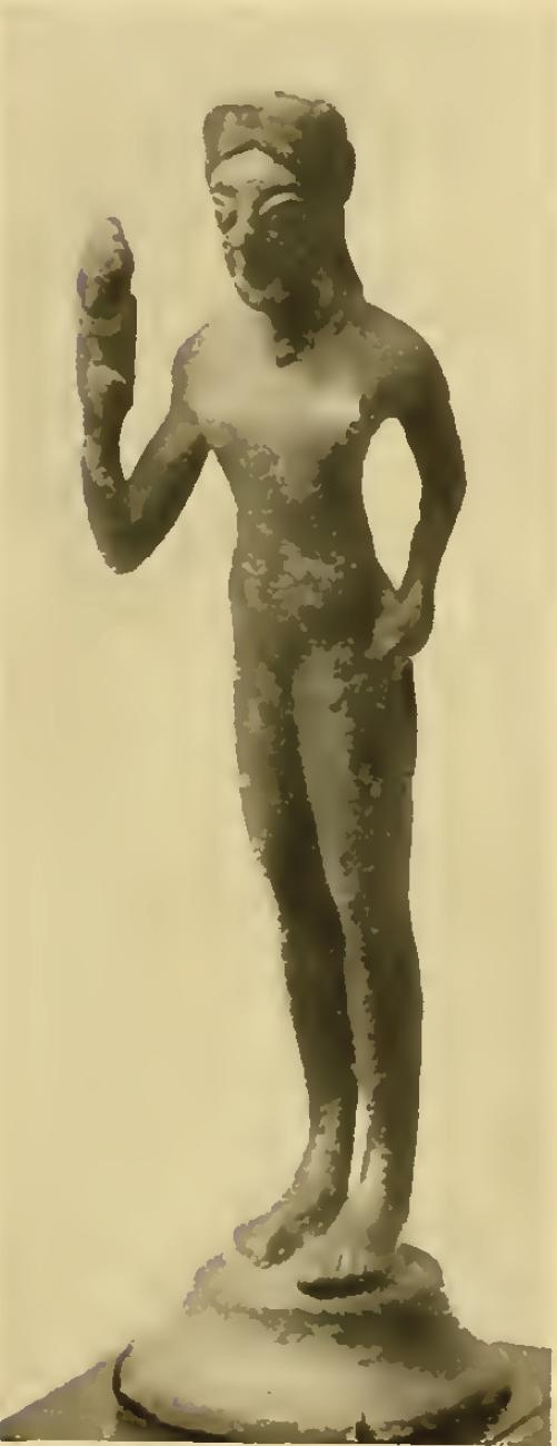 girl with lotus